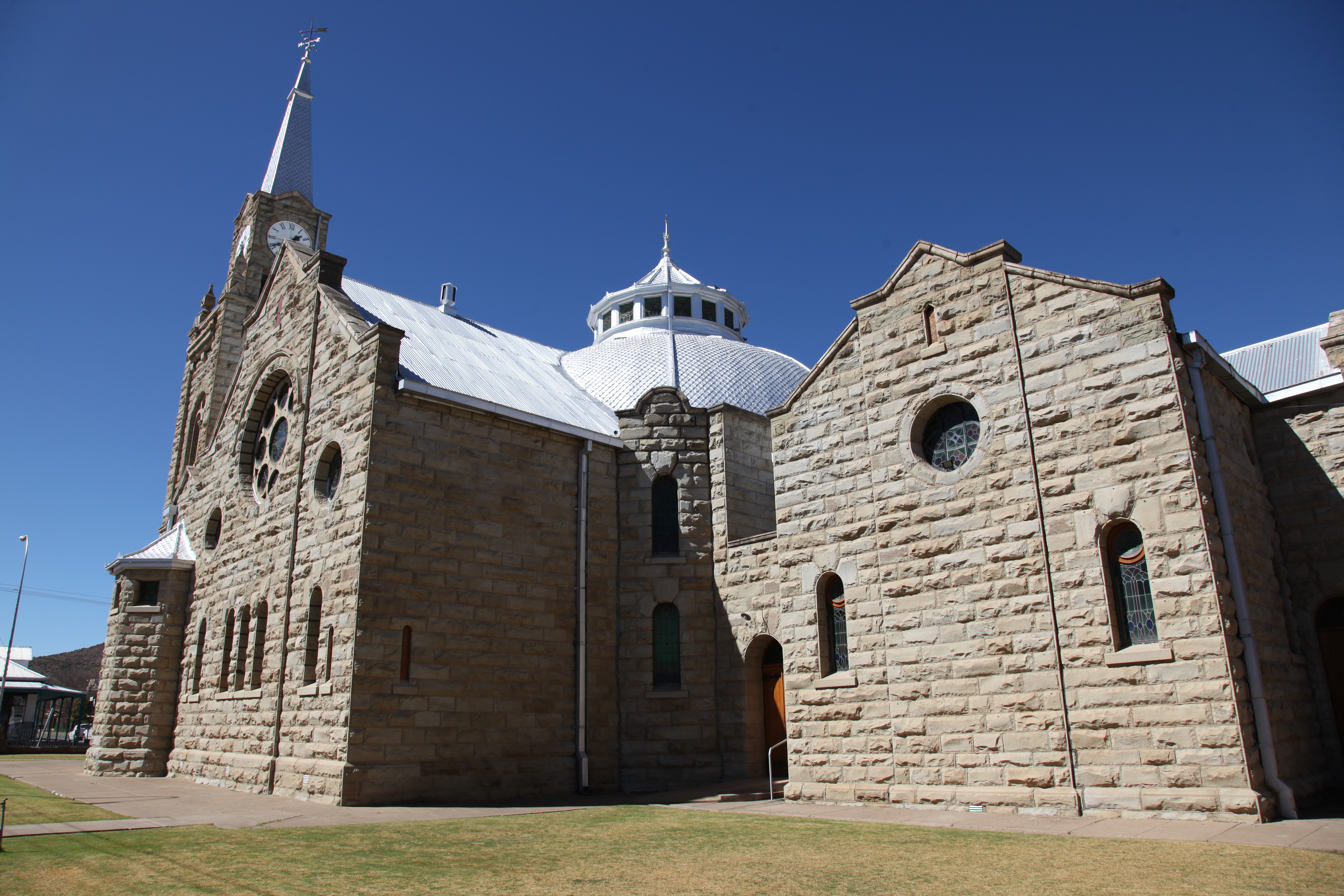 NG Kerk in Burgersdorp - Eastern Cape, South Africa